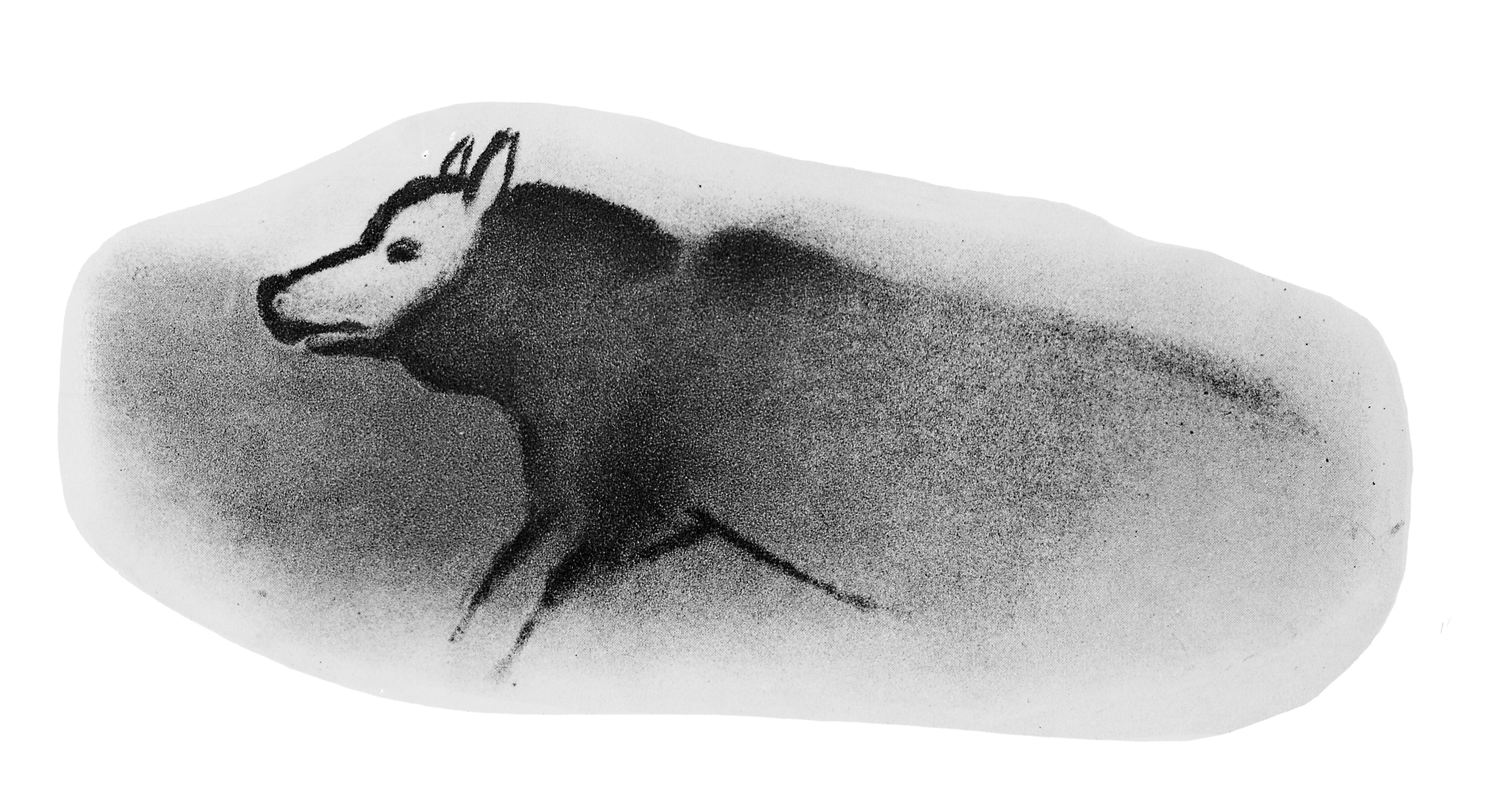 Upper palaeolithic wall painting showing wolf. Cave at Font-de-Gaume. Wellcome Images Keywords: prehistoric art; Archaeology